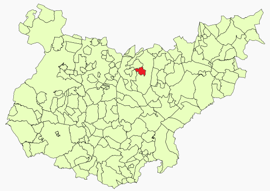 Mengabril